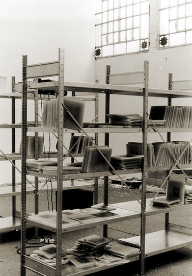 "Archivio", an installation at "Milano Poesia" 1991, by artist Iris Häussler